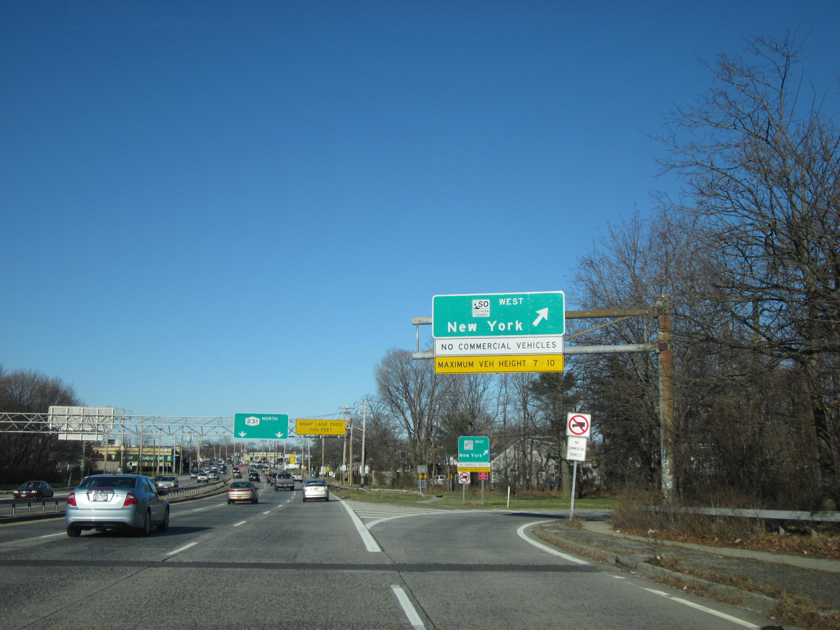 New York State Route 231 northbound at the junction with the Southern State Parkway westbound in North Babylon, New York.